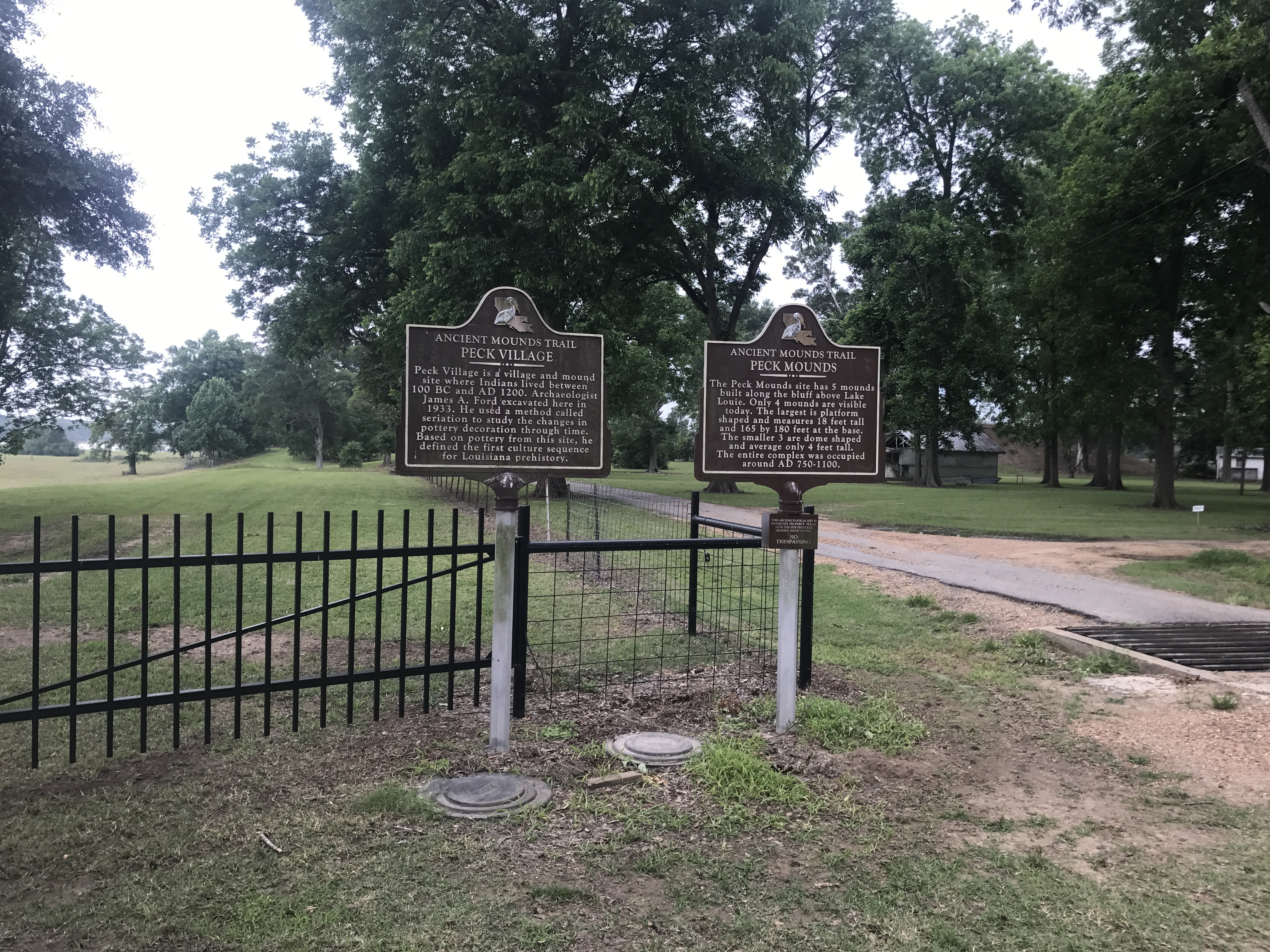 Peck Mounds/Village markers